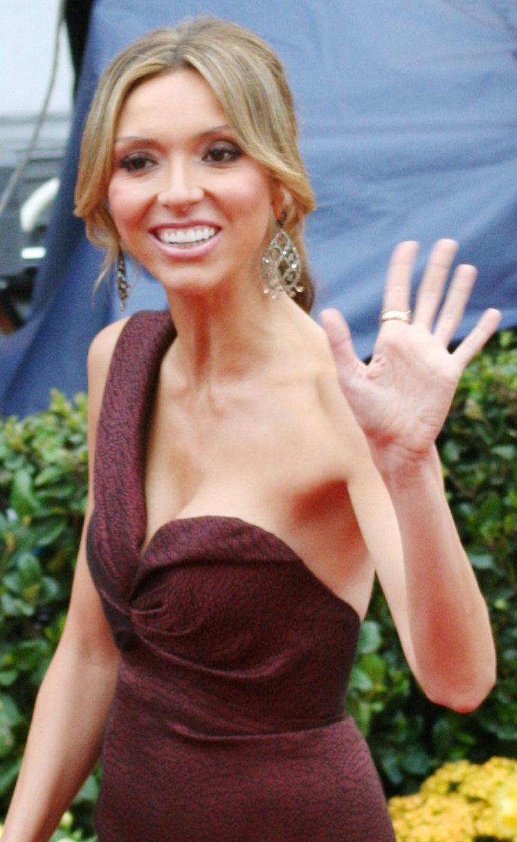 Giuliana Rancic at the 81st Academy Awards